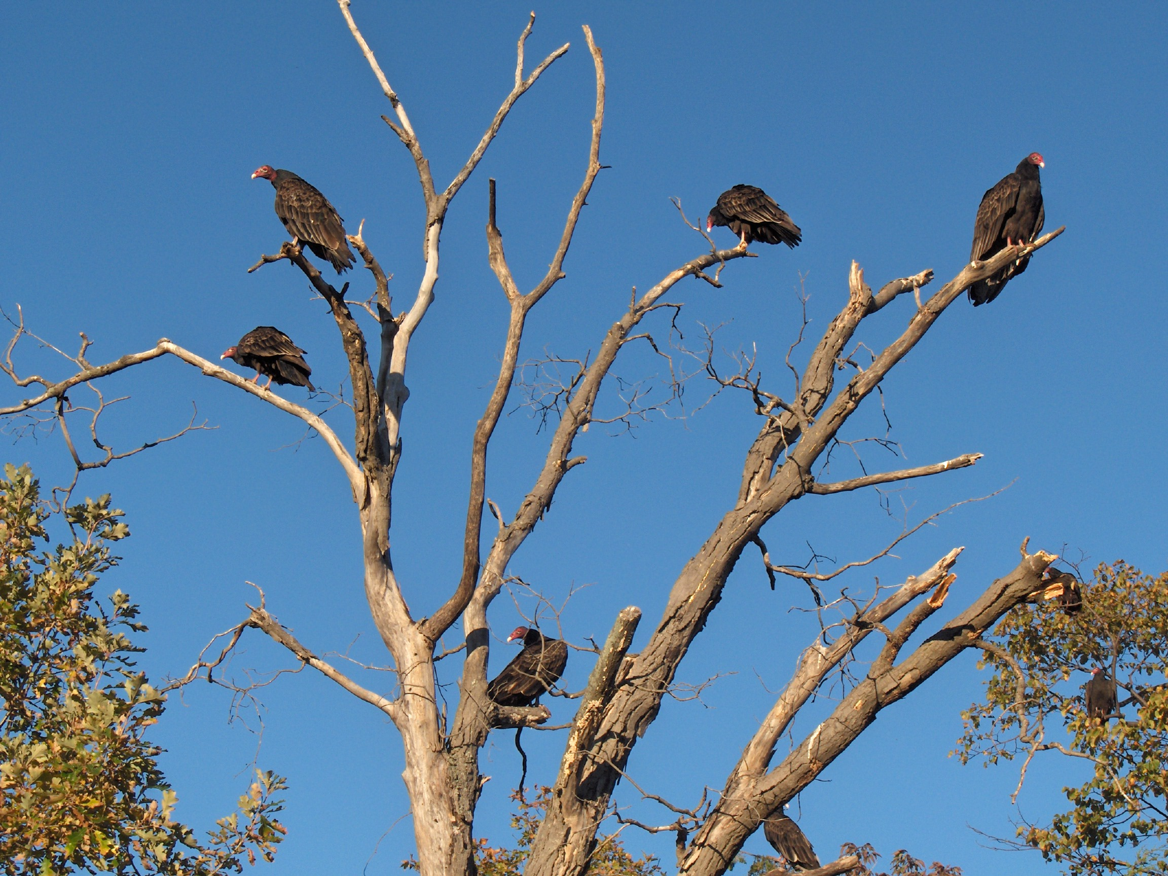 Several turkey vultures roosting in a dead tree.